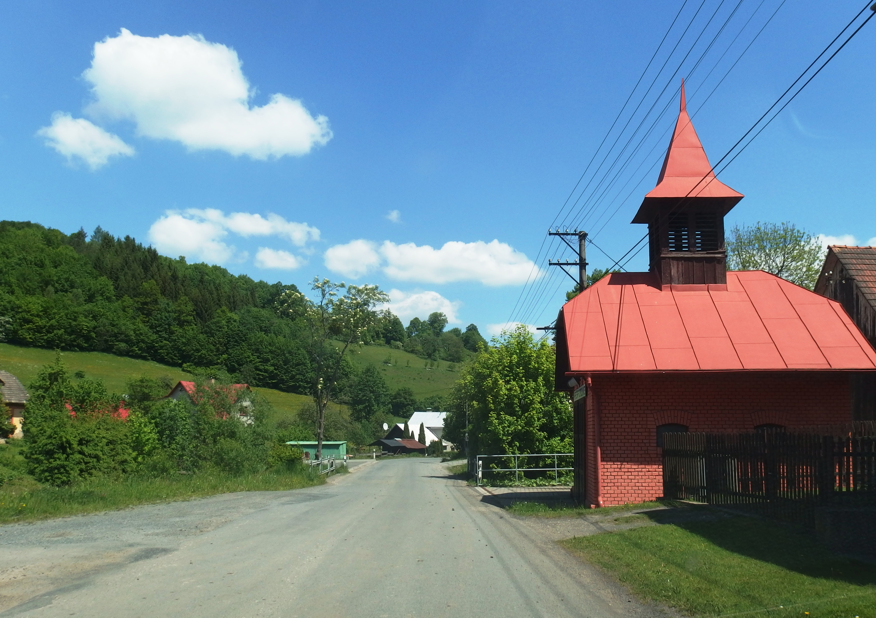 Seninka, Vsetín District, Czech Republic.